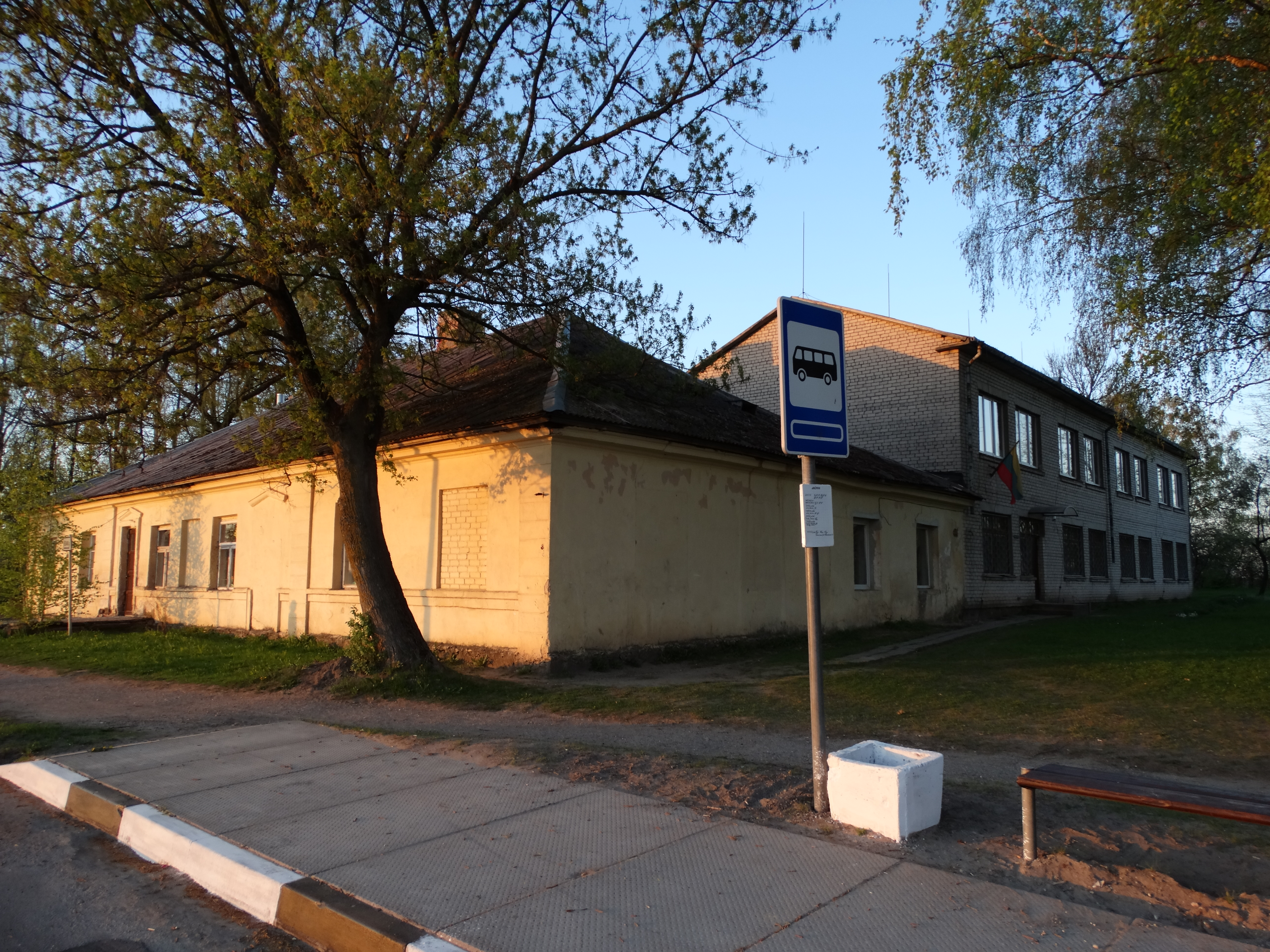 Skėmiai school, Radviliškis District, Lithuania